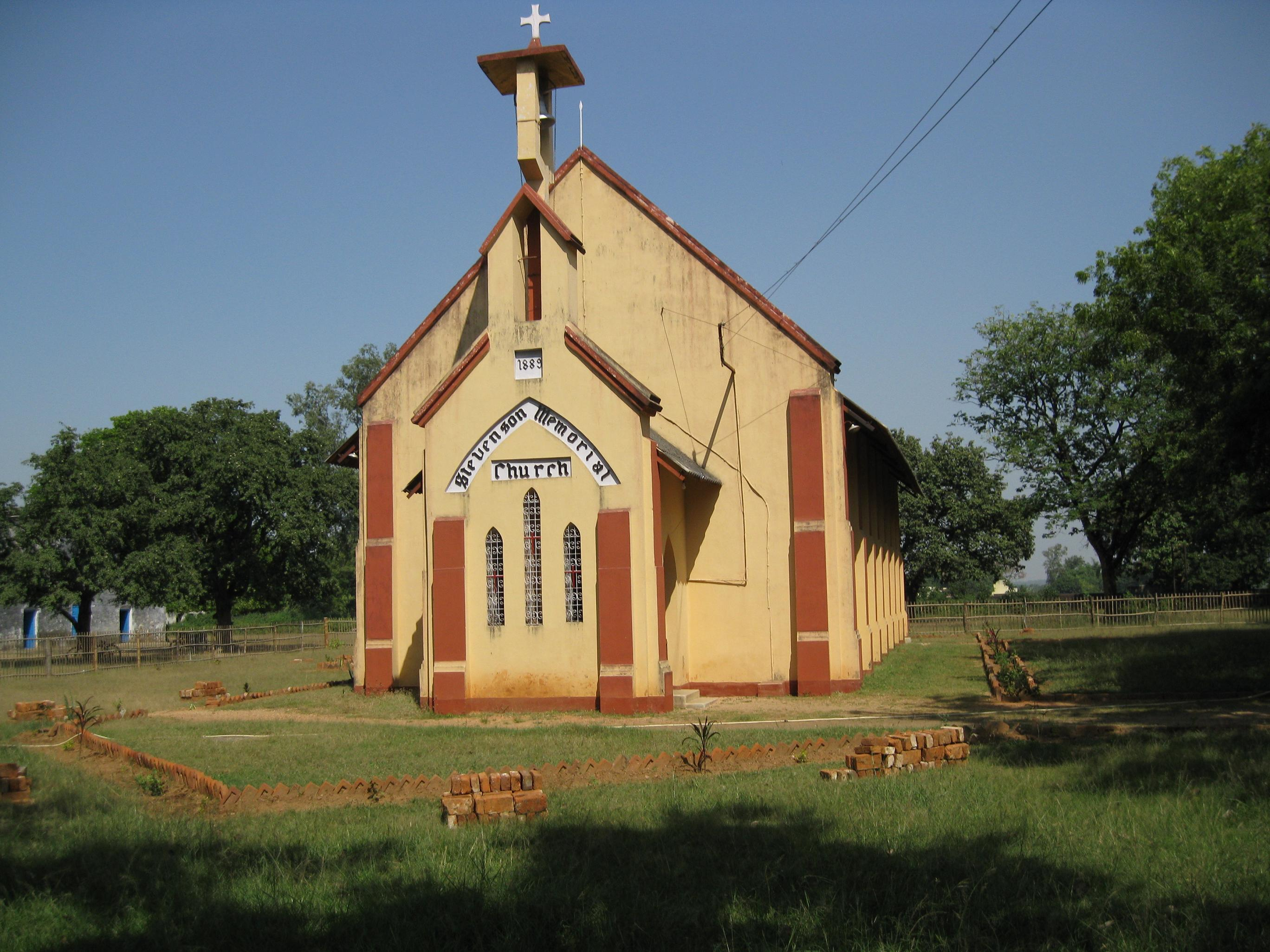 A photograph of Stevenson Church of Pachamba